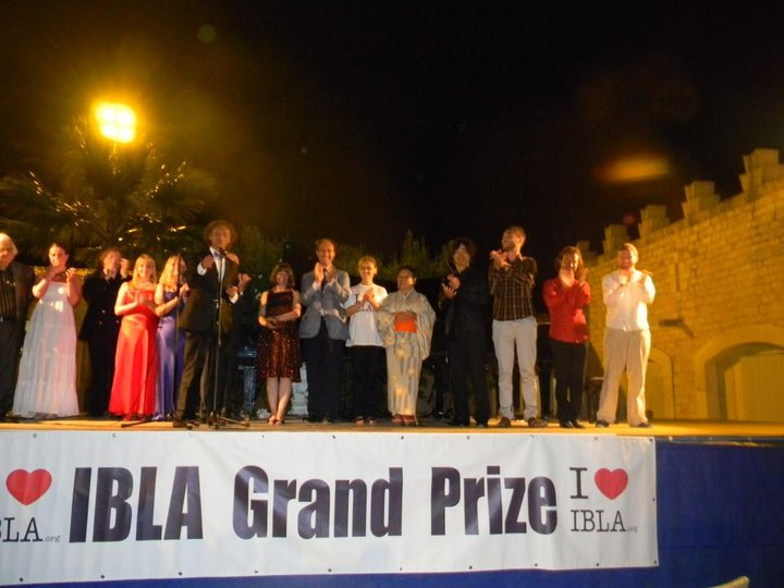 stage in villa cristione, commune of ragusa